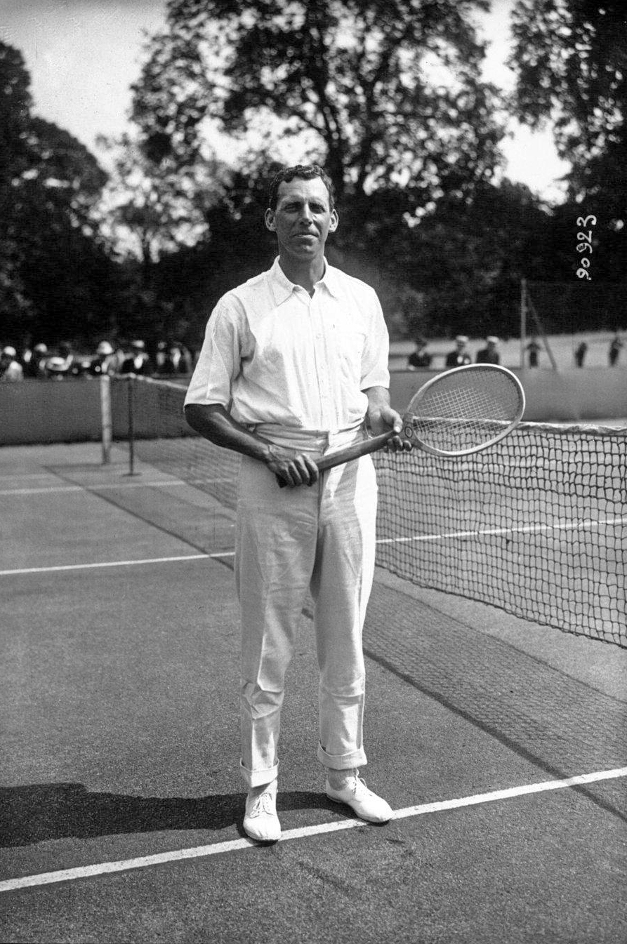 British Indian player Sydney Jacob at a Davis Cup match between France and India in Paris.